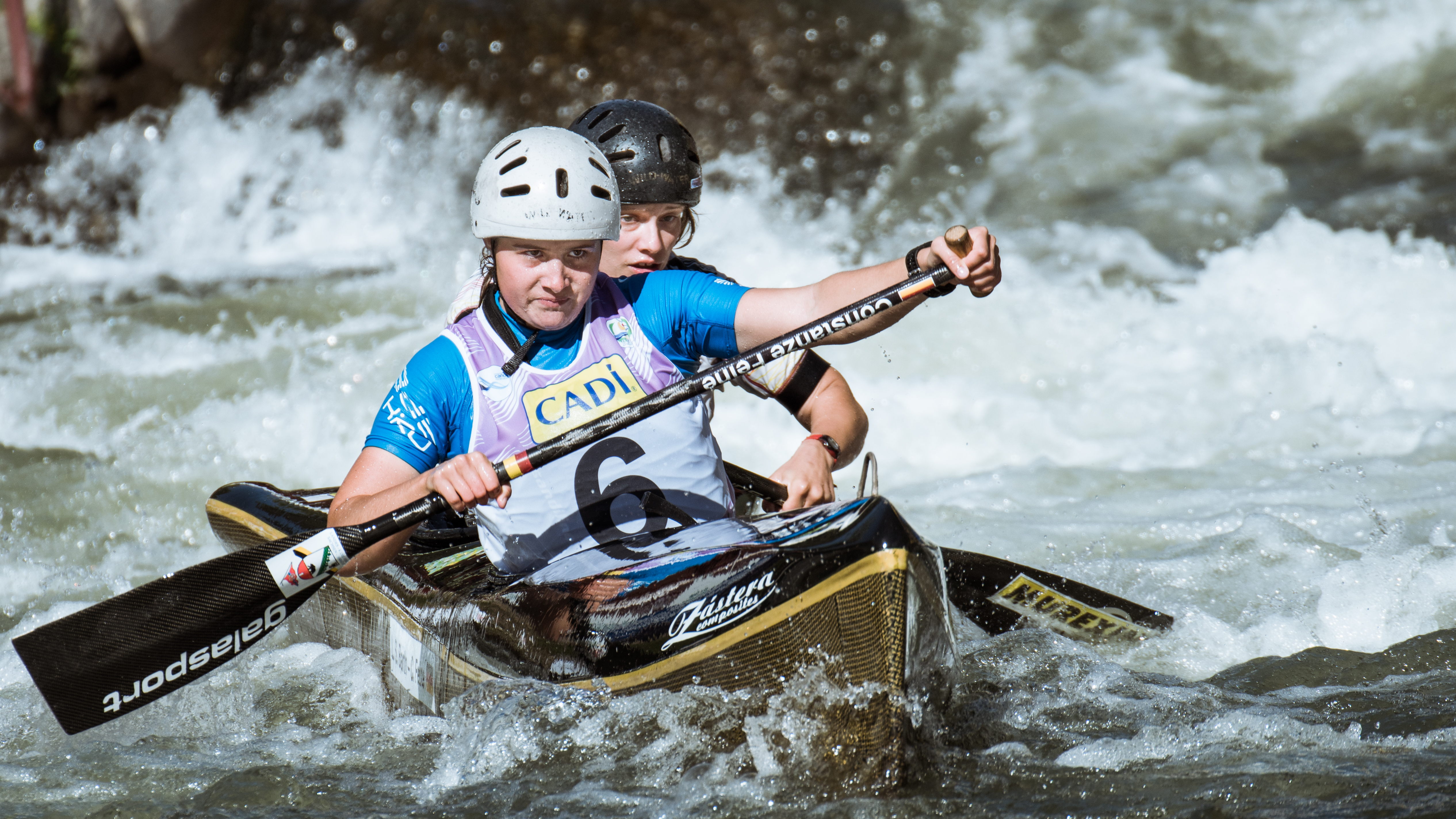 Lea-Sophie Barth and Constanze Feine during the 2019 Canoe Wildwater World Championships in La Seu d'Urgell, Spain.